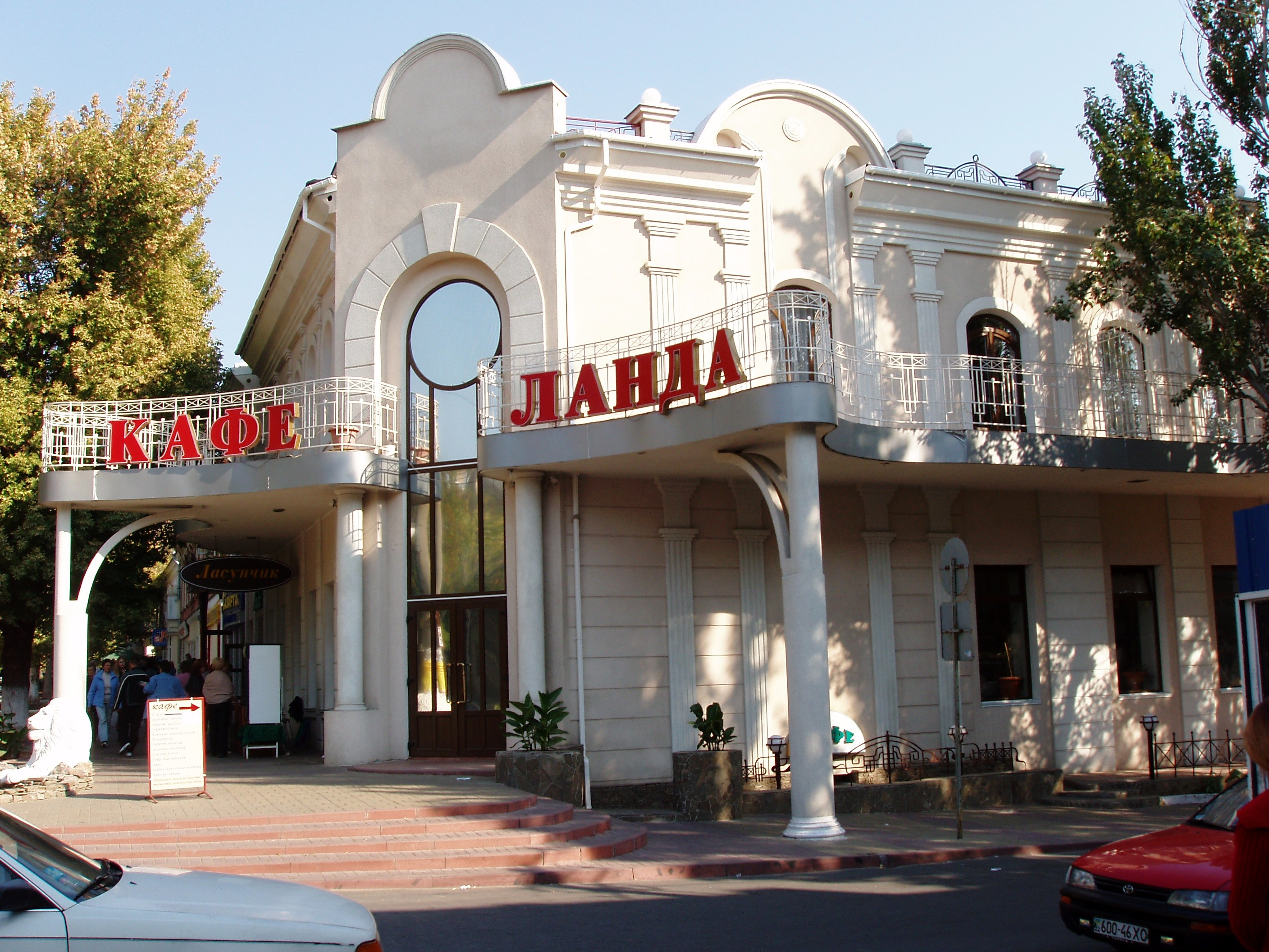 Kherson street